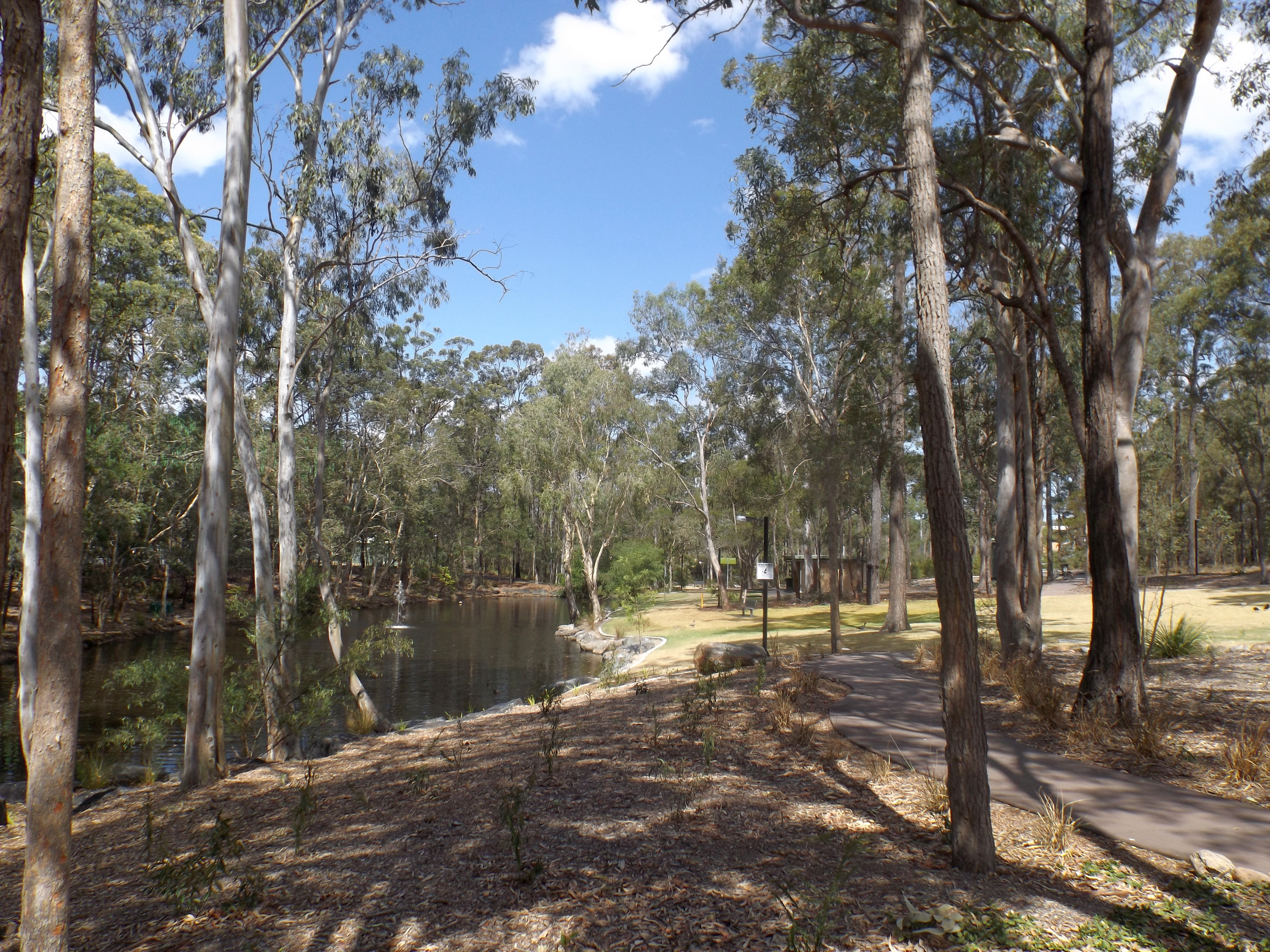 Photo of the lake and parklands between the Brisbane Aquatic Centre and carpark 2 at the Sleeman Centre in Chandler, Brisbane, Queensland, Australia.